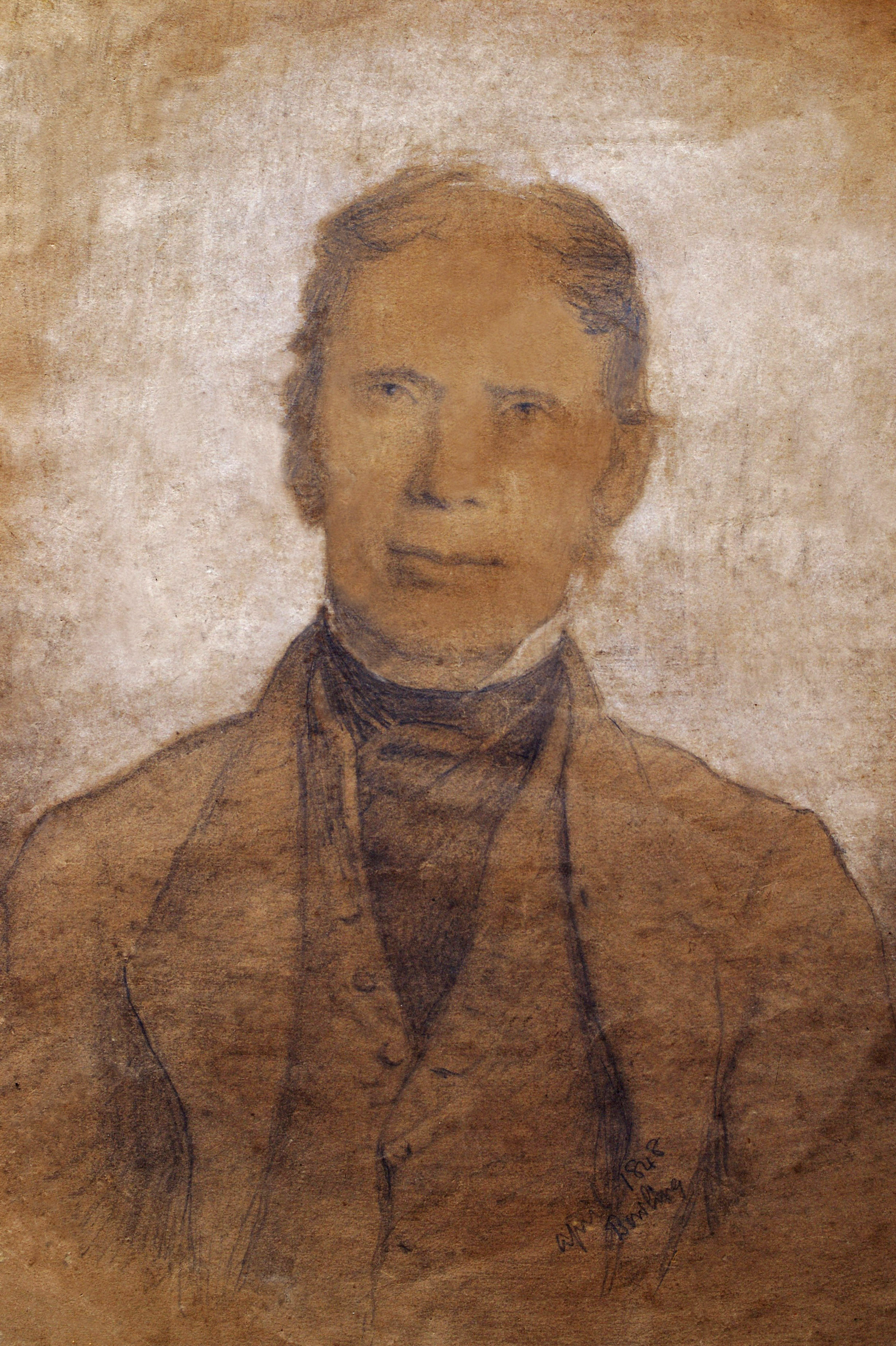 A drawing of John Murray, Scots abolitionist.